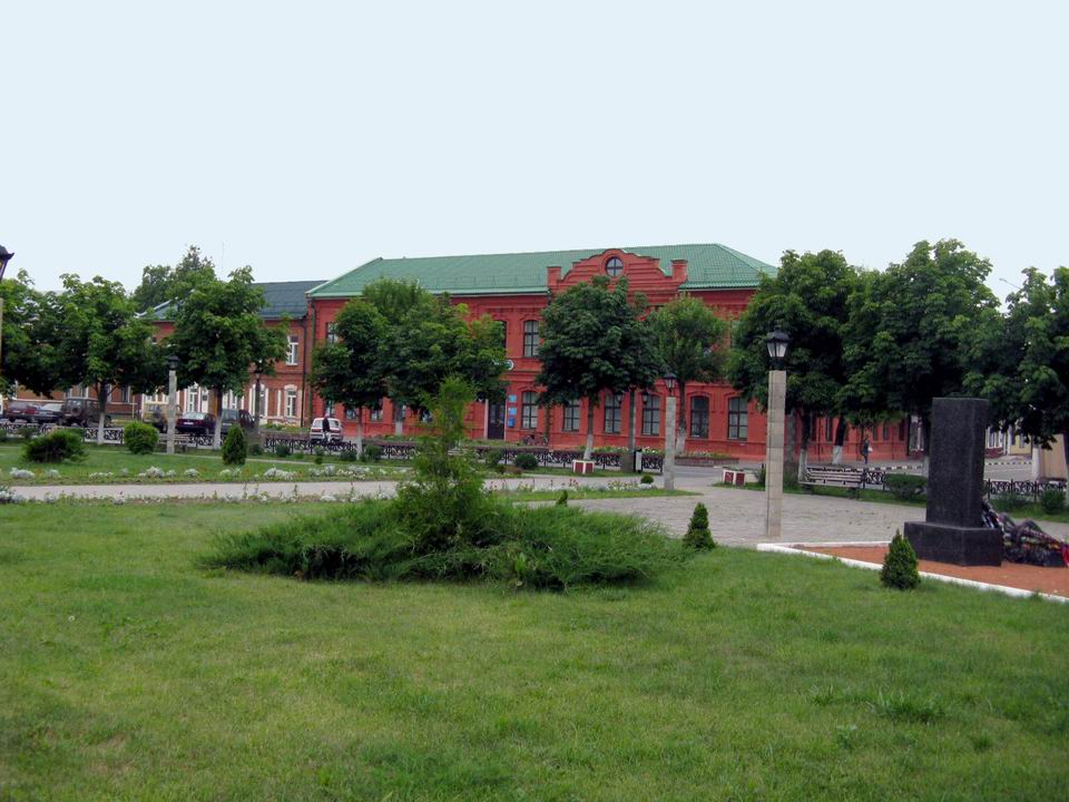 Liberty Square in Lepel, Belarus